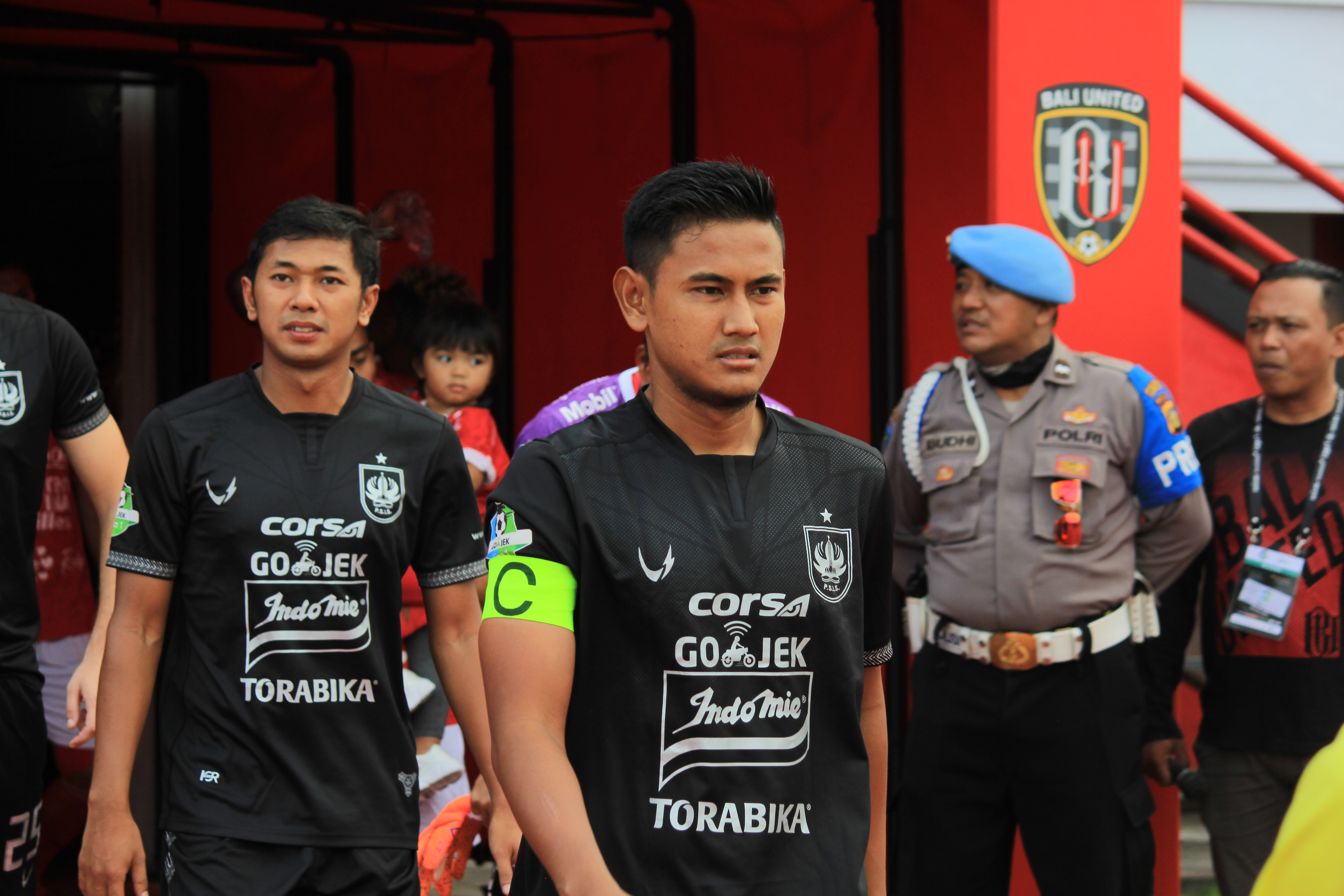 Haudi Abdillah (PSIS) agaist Bali United